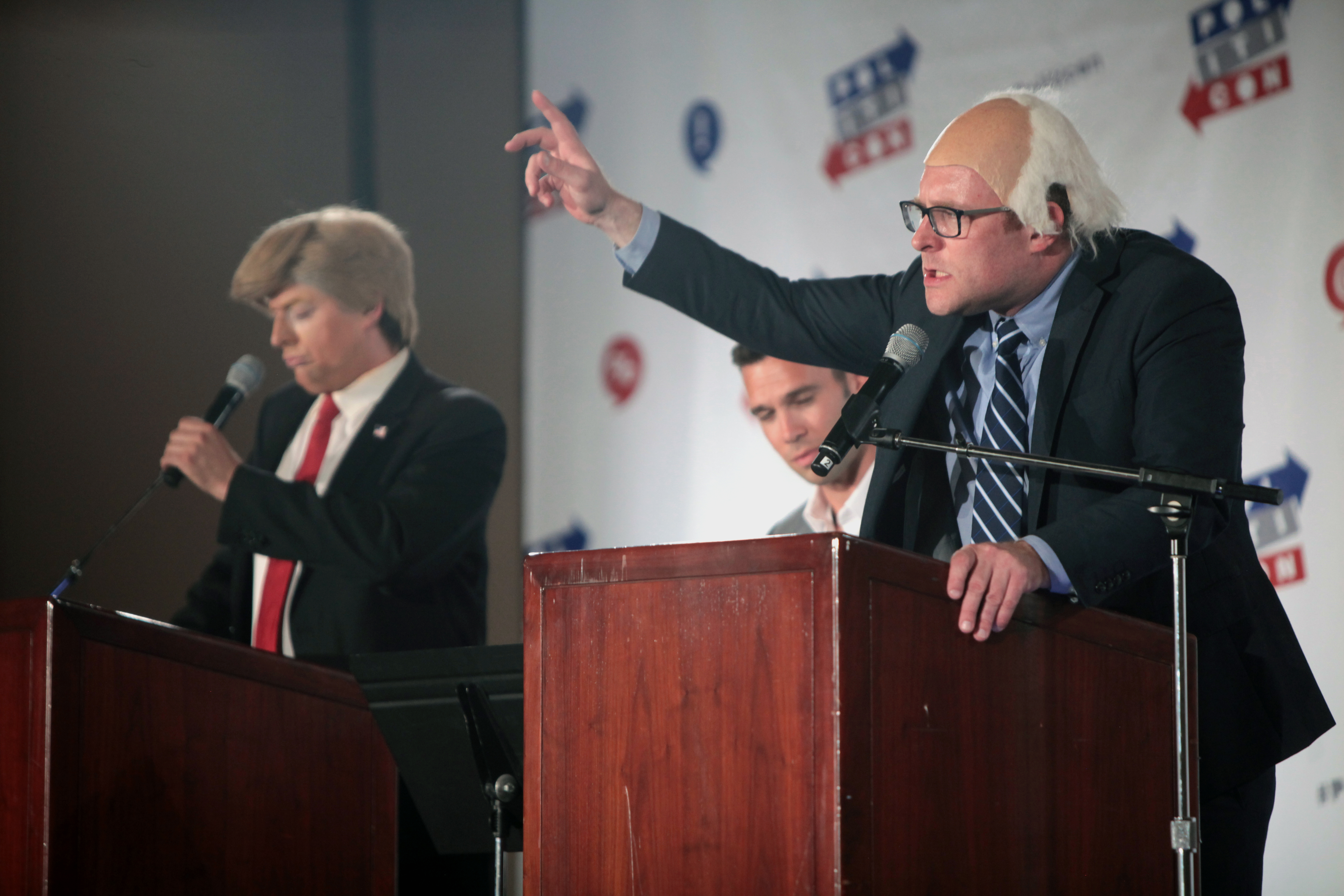 Anthony Atamanuik as Donald Trump and James Adomian as Bernie Sanders at the 2016 Politicon in Pasadena, California